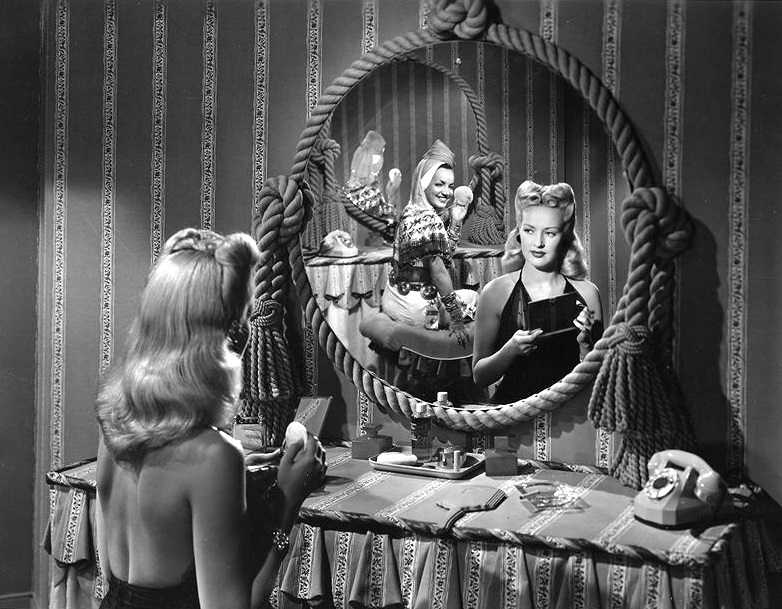 Betty Grable and Carmen Miranda in the film Springtime in the Rockies (1942).